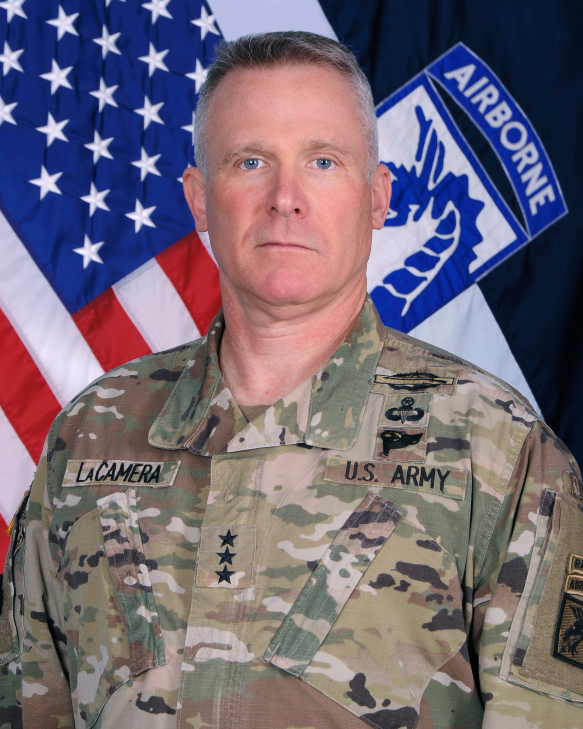 Lt. Gen. Paul J. LaCamera